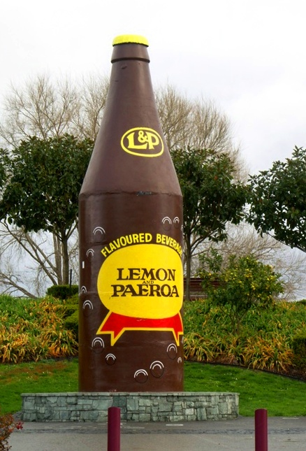 PICT8268.jpg- photo taken and uploaded by Paul Moss, Photographer, Artist, Paul Moss Photographer Artist NZ